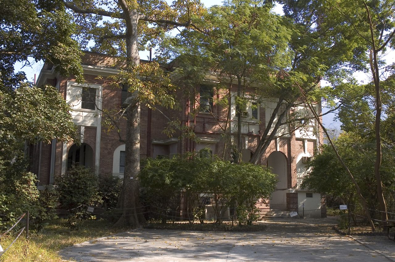 Woodside (or "Red Building") in Quarry Bay, Hong Kong.